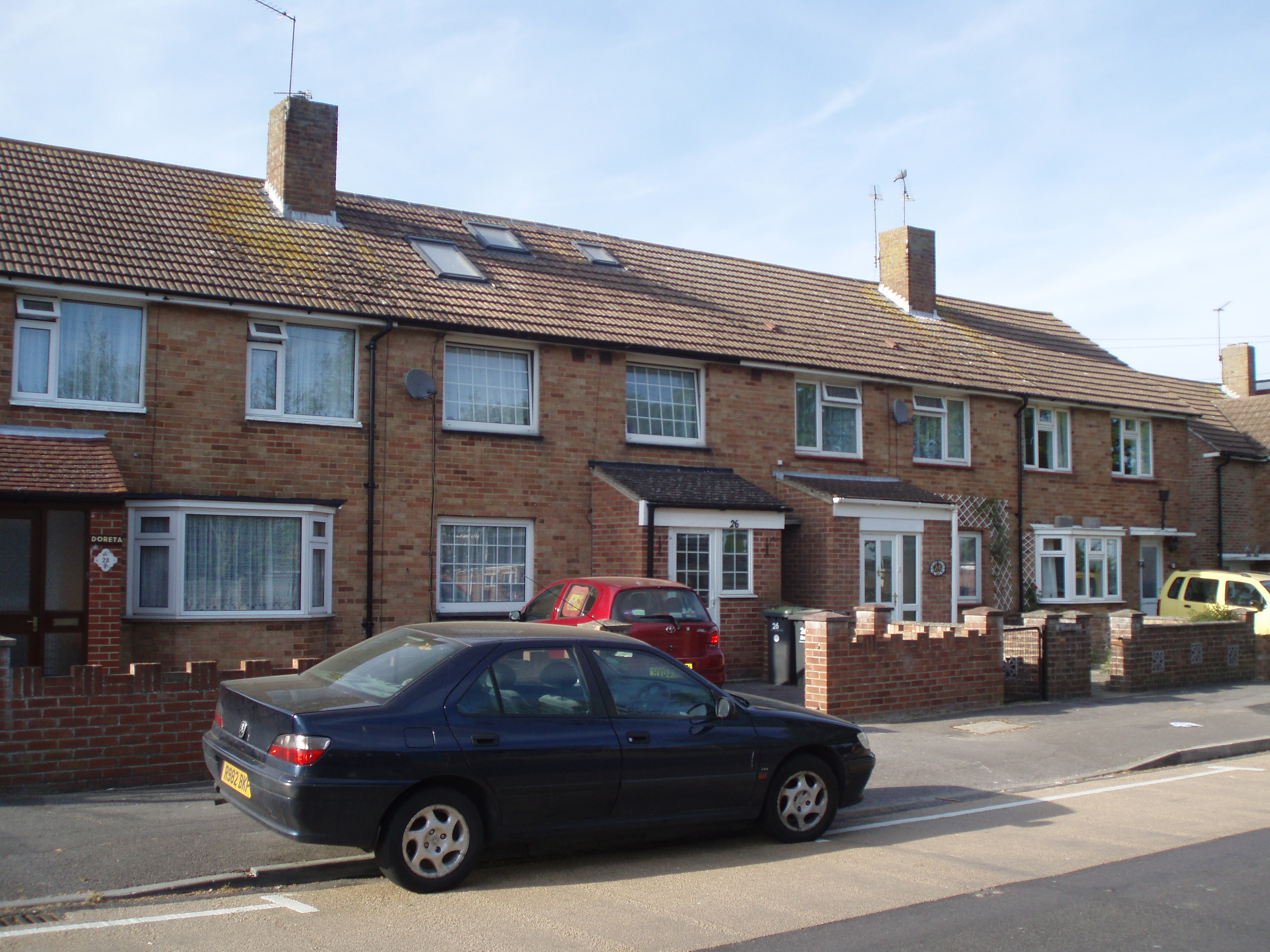 Jamie Blundons doom- Buggy 'The scank-cranker' outside his Bedhampton base c.1992